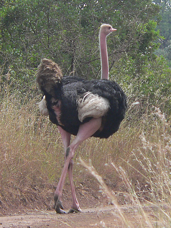 Masai ostrich photographed in Nairobi National Park, Kenya.